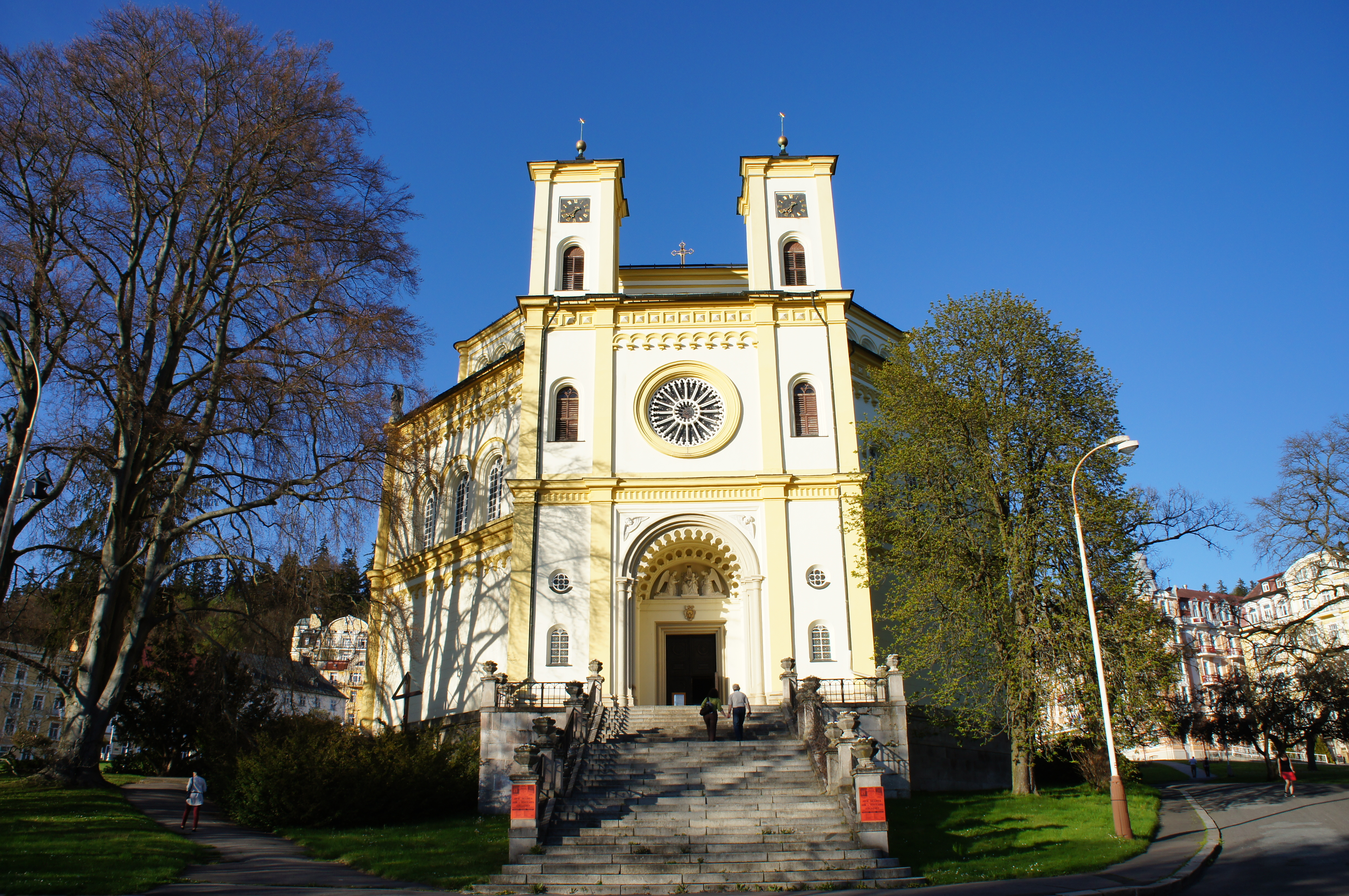 The Assumption of Mary Church in Mariánské Lázně (Karlovy Vary Region, Czech Republic).